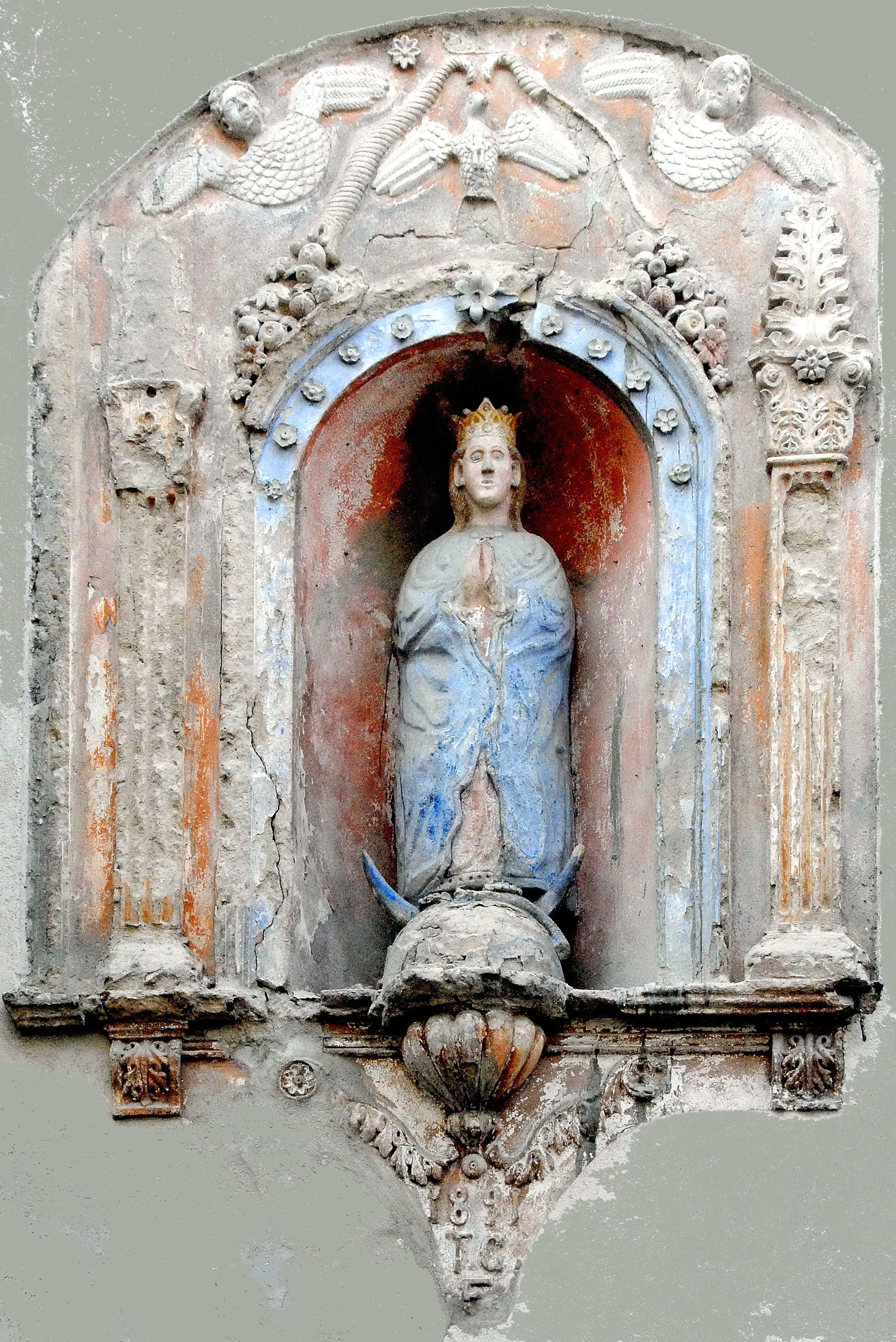 Statue of a crescent Madonna in a house wall`s alcoven on the main road in the community Amaro, region Friuli Venezia-Giulia, Italy